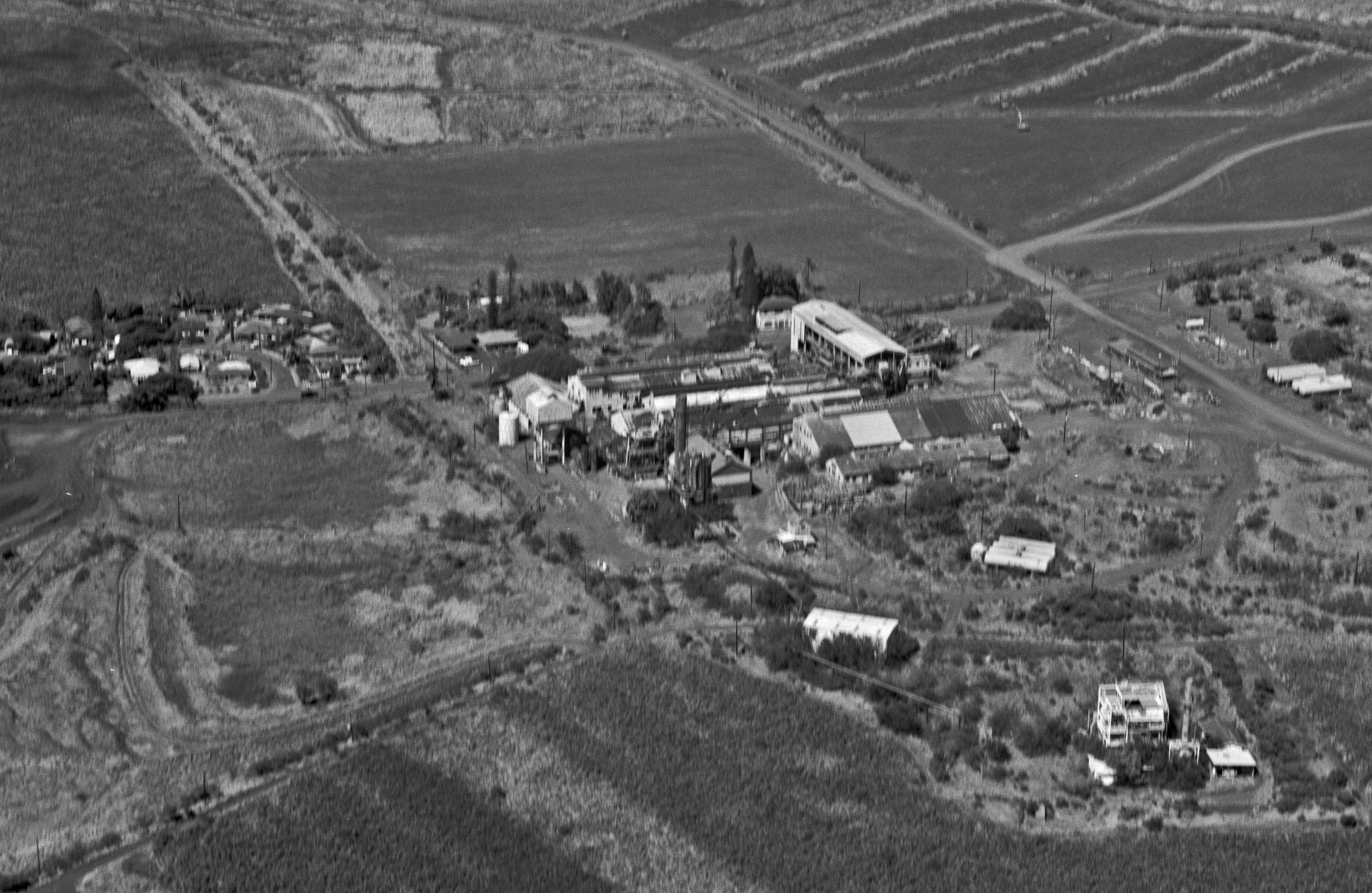 Historic SUgar Mill located in the town of Pa'ia, Hawaii on the northern shore of the island of Maui. From the Historic American Engineering Record collection at the U.S. Library of Congress. Caption is "Aerial view; Sugar Mill east of Kahalui[sic] Airport enroute to Hana Belt Road, area is just south of Pa'ia"